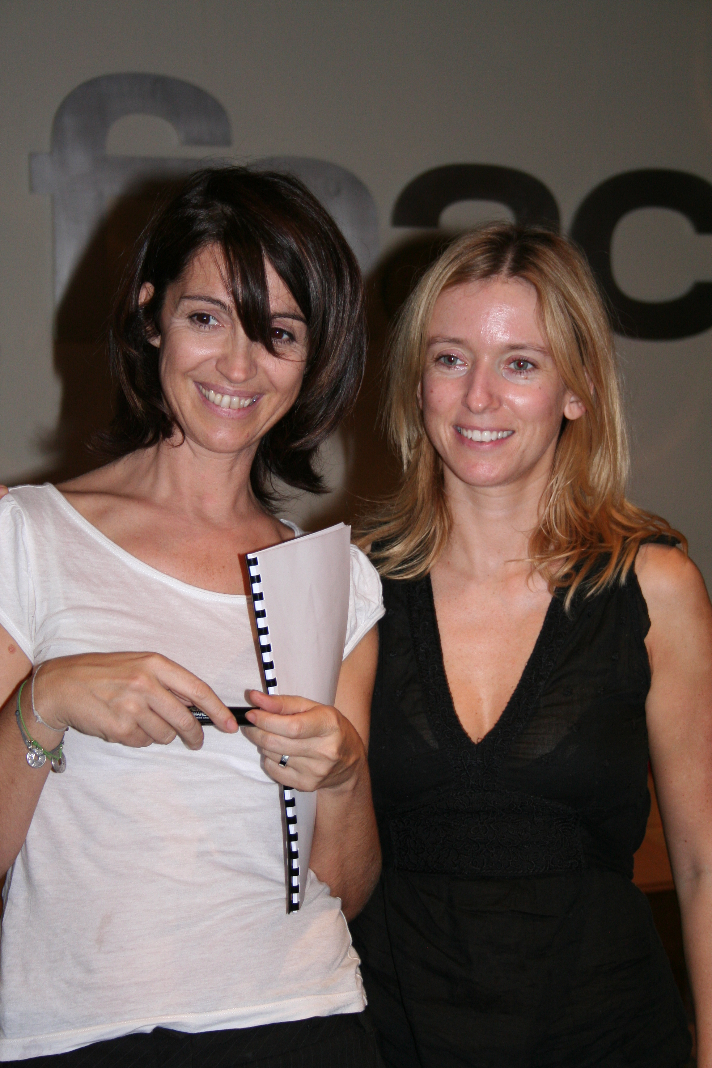 Rendezvous with Zabou Breitman and Léa Drucker at Fnac des Halles (Paris, France).